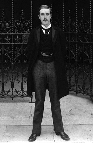 by Sir (John) Benjamin Stone, platinum print in card window mount, 1901